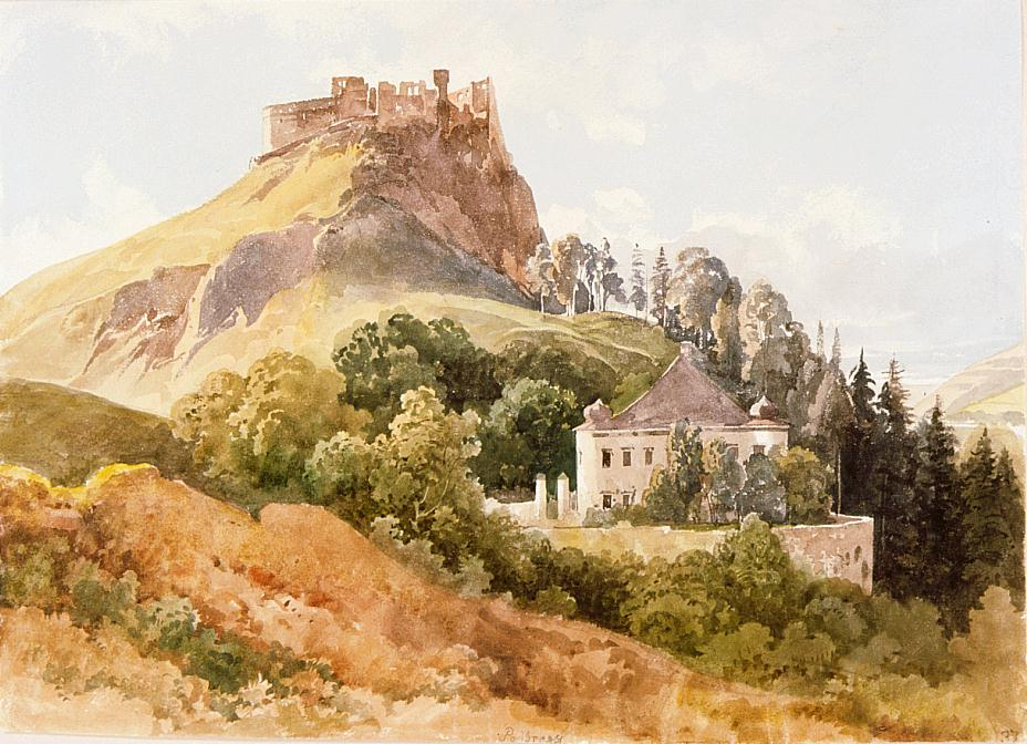 Povážský Hrad and the Renaissance mansion